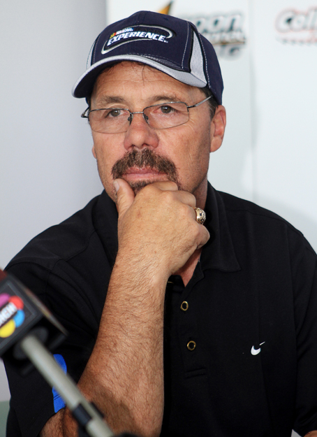 Ernie Irvan, photographed in July 2011 by Mike F. Campbell (User:76wins) at Flamboro Speedway, Hamilton, Ontario, Canada.